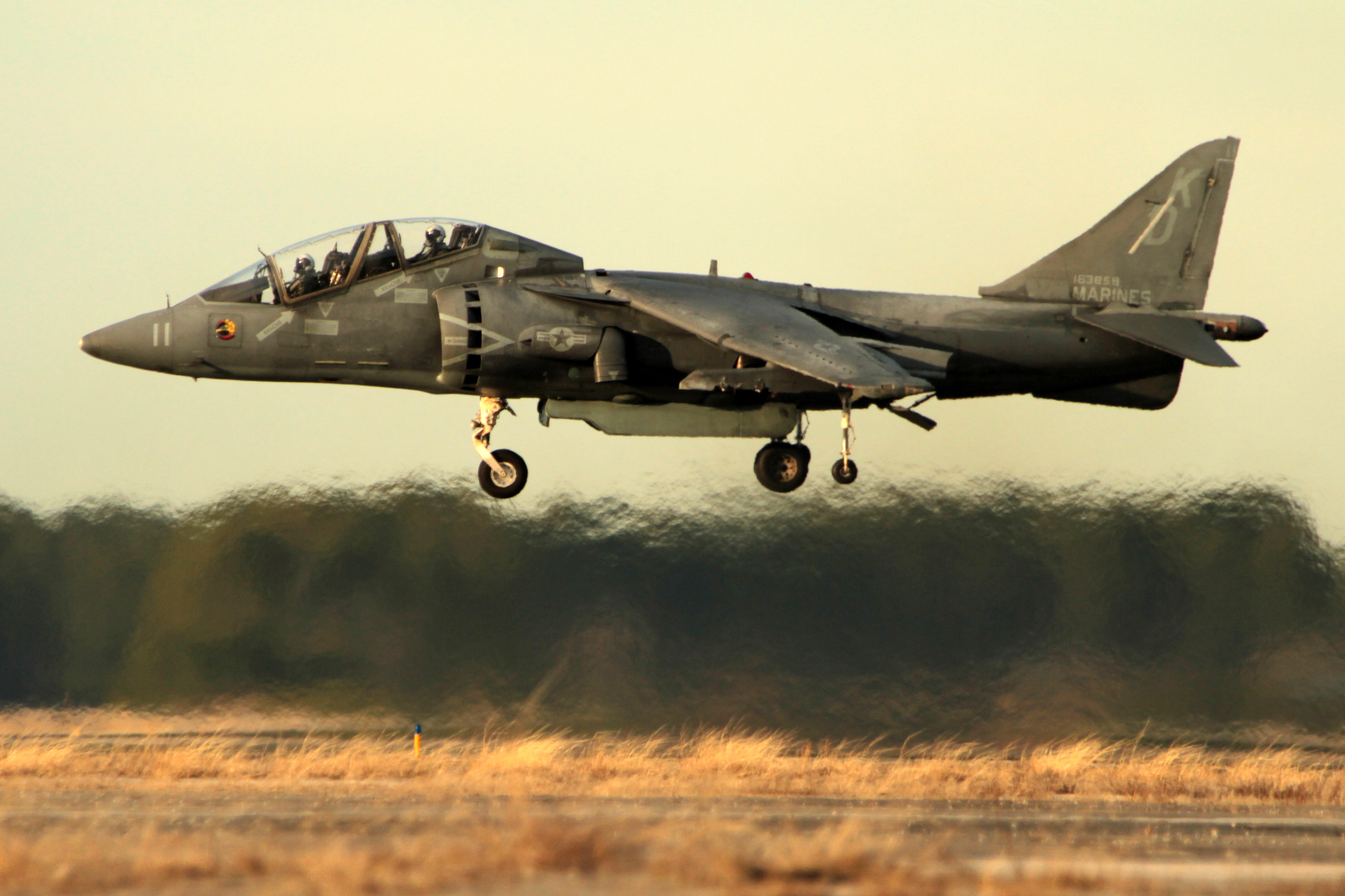 A student pilot and instructor with Marine Attack Training Squadron 203 perform a vertical takeoff inside a TAV-8B Harrier at Marine Corps Air Station Cherry Point, N.C., Jan. 29, 2015. VMAT-203 is the Marine Corps' only fleet replacement squadron for the AV-8B Harrier and trains naval aviators for the mission of supporting the Marine Air-Ground Task Force. Cherry Point is home to 2nd Marine Aircraft Wing and several of its squadrons. Its runways operate 24/7, 365 days each year, and the air station hosts squadrons that specialize in air-to-ground attack support; heavy helicopter lift and transport; electronic warfare; aerial transport and refueling; and sea and land search and rescue.